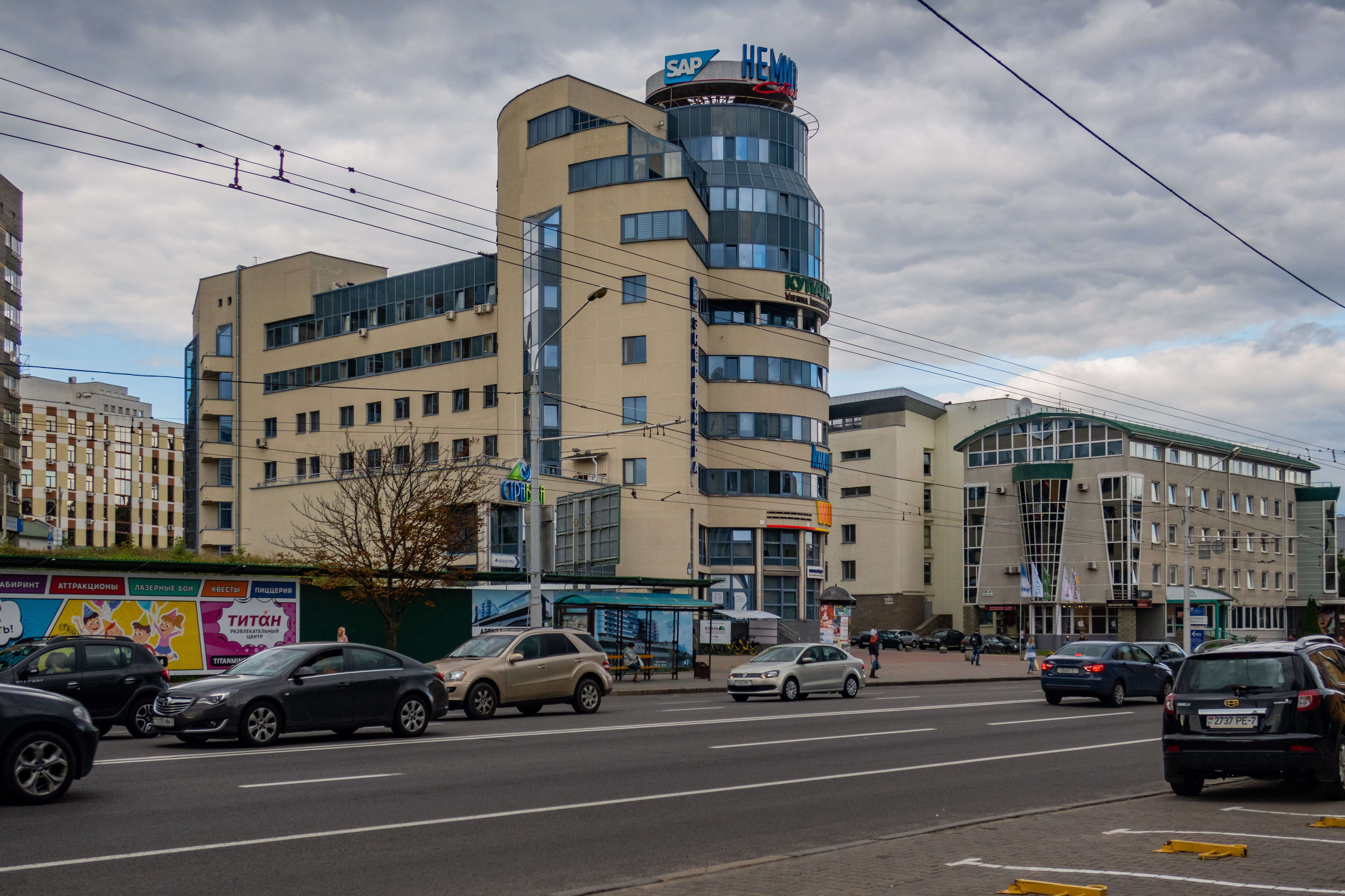 Southeastern part of Niamiha street. Minsk, Belarus